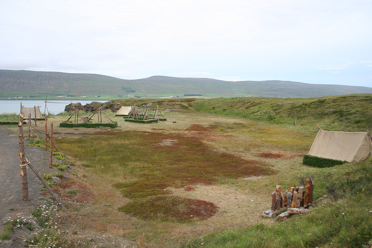 Gásir - Medieval Trading Place North Iceland